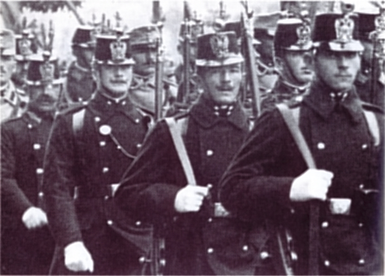 Austro-Hungarian soldiers on a parade in Vienna due to the centenary of the Battle of Leipzig.